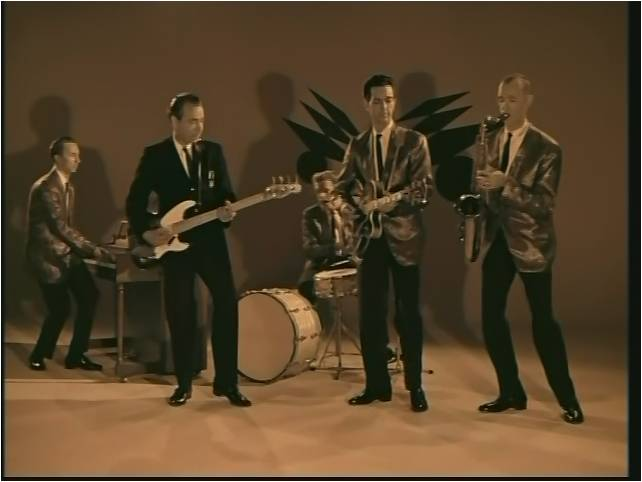 Martin Willis (saxophone) of Bill Black Combo soloing on "Yogi" during the movie "Teenage Millionaire"